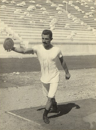 Double Olympic champion Robert Garrett (1875-1961) at the 1896 Summer Olympics